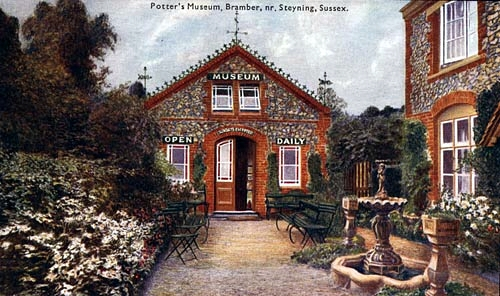 Walter Potter's museum at Bramber, Sussex, UK